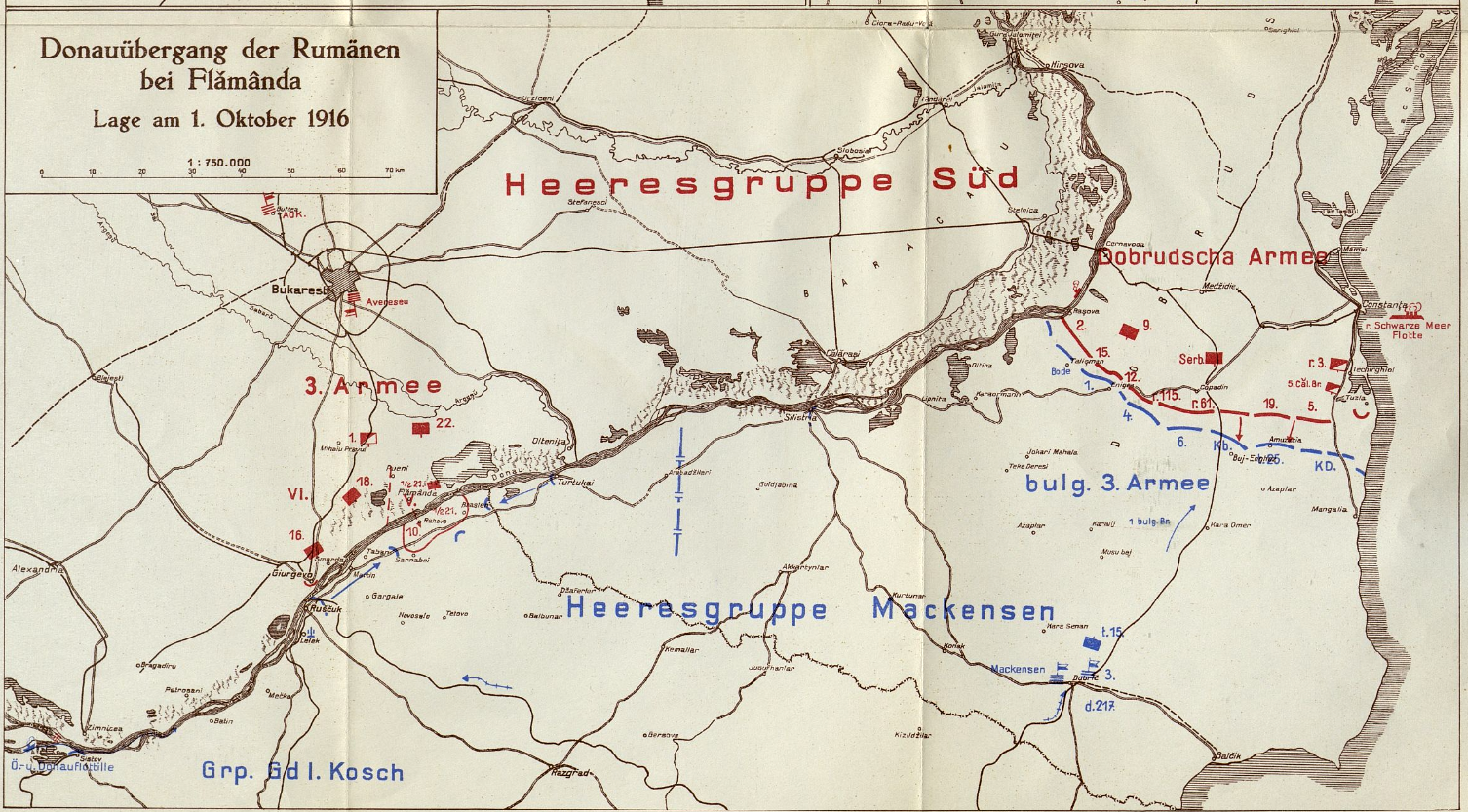 Romanian Front in WWI - The operations from Flămânda, 1916